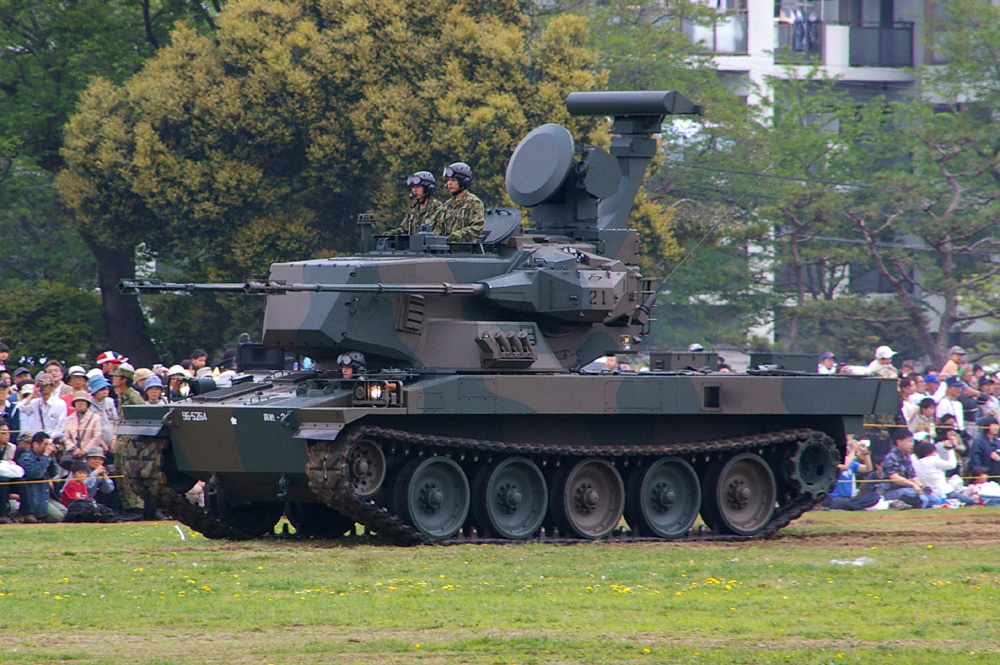 Taken by Los688,29-Apr-2008,JGSDF Camp-Shimoshizu.JGSDF Type87 Self-Propelled Anti-Aircraft Gun,Air Defence Artillery School unit. ja:2008年4月29日、投稿者撮影。陸上自衛隊下志津駐屯地記念行事。87式自走高射機関砲、高射教導隊。